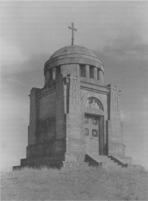 Monument commemorating the Battle of Ostrach 1799, erected in 1903.